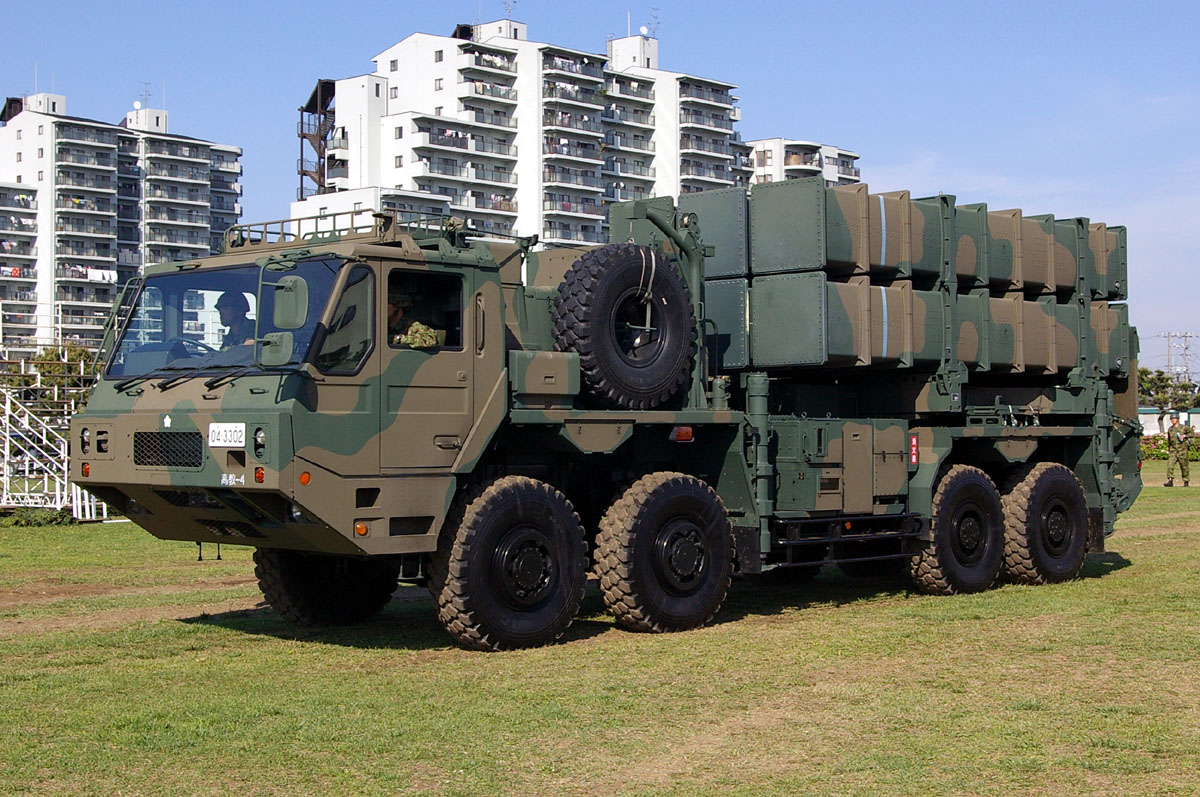 Taken by Los688,29-Apr-2007,JGSDF Camp-Shimoshizu.JGSDF Type03 SAM,Air Defence Artillery School unit.PD-self. ja:2007年4月29日、投稿者撮影。陸上自衛隊下志津駐屯地記念行事。03式中距離地対空誘導弾（発射機）、高射教導隊。